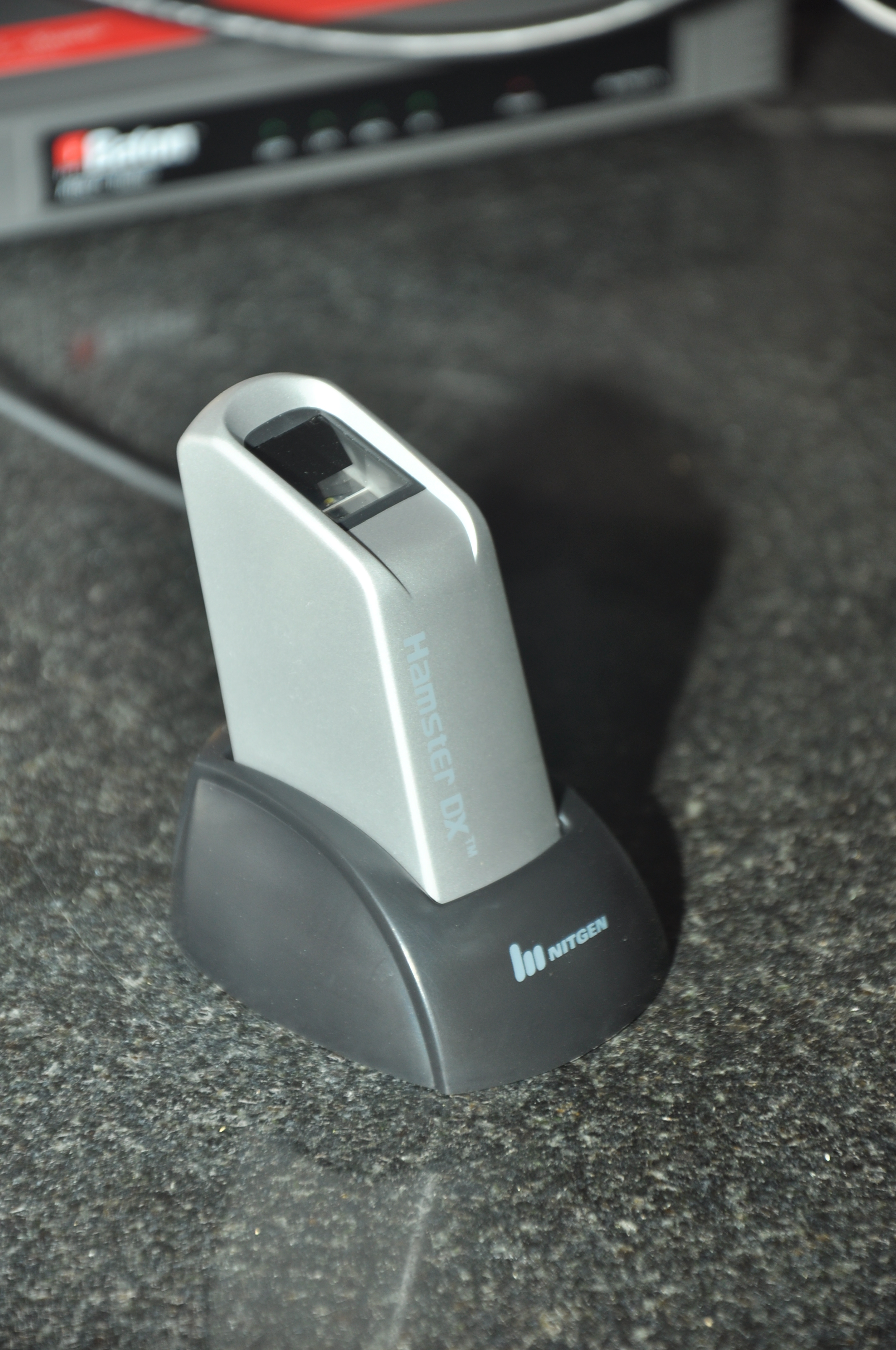 This media file is uploaded with India loves Wikipedia event. Fingkey Hamster II has a fingerprint sensing function and is a cutting-edge fingerprint sensor that prevents use of fake fingerprints. It can be connected to PC along with a normal mouse and used for all the areas involving passwords and will be a competent security gadget without having to use a password, which is often hard to remeber and misused by unauthorised persons.